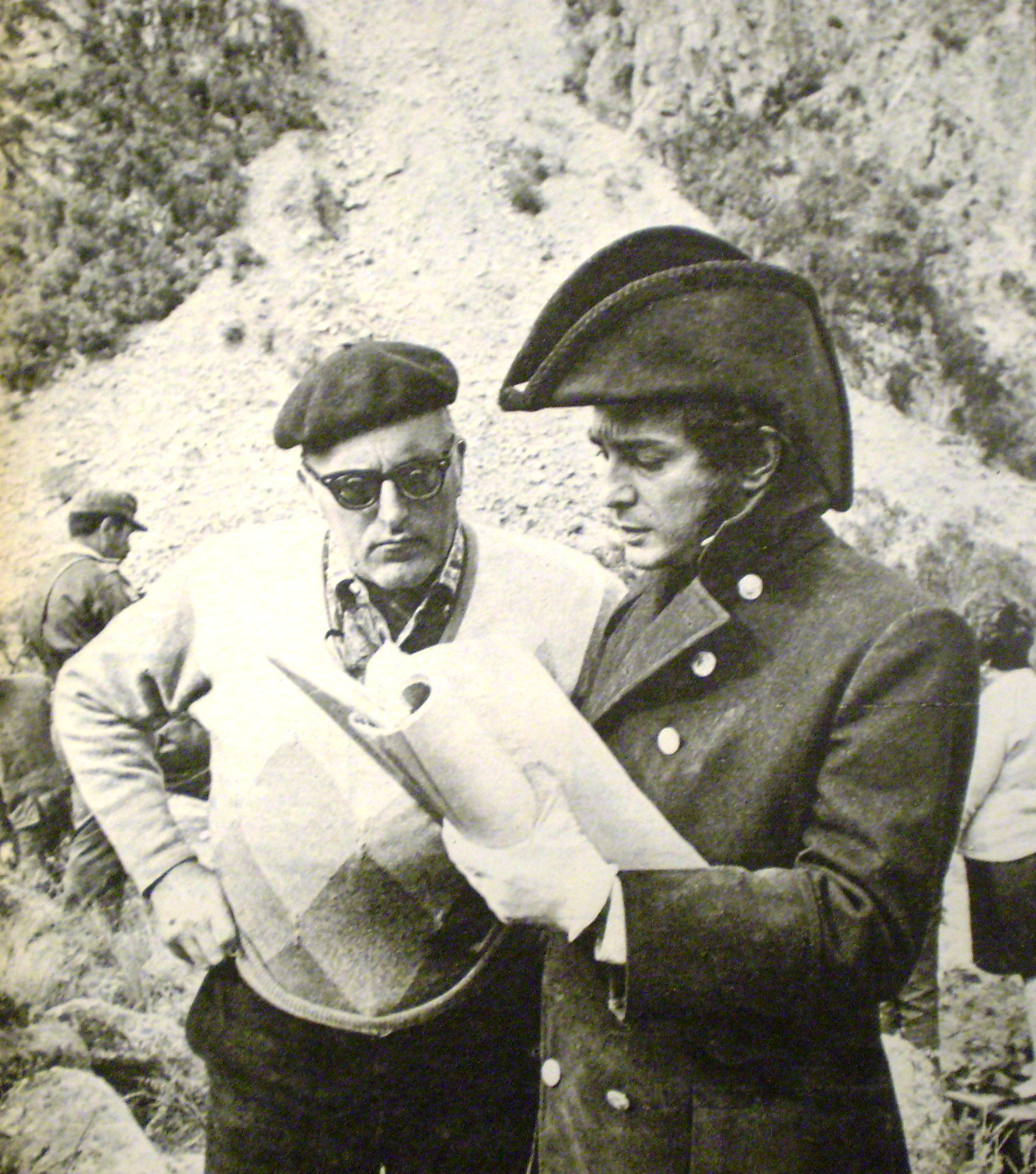 Actor Alfredo Alcón and director Leopoldo Torre Nilsson during filmings of El Santo de la Espada.